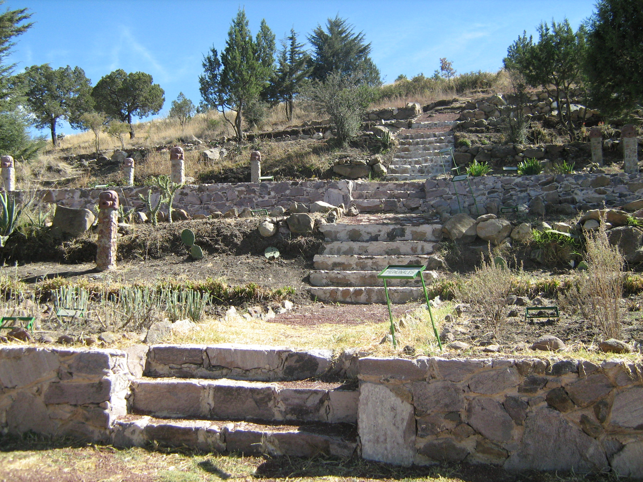 Texcotzingo — archaeological site of 15th century Texcoco altepetl, near the present day city of Texcoco. Site of one of the first extant botanical gardens in the world, and summer imperial gardens of Aztec ruler Nezahualcoyotl.